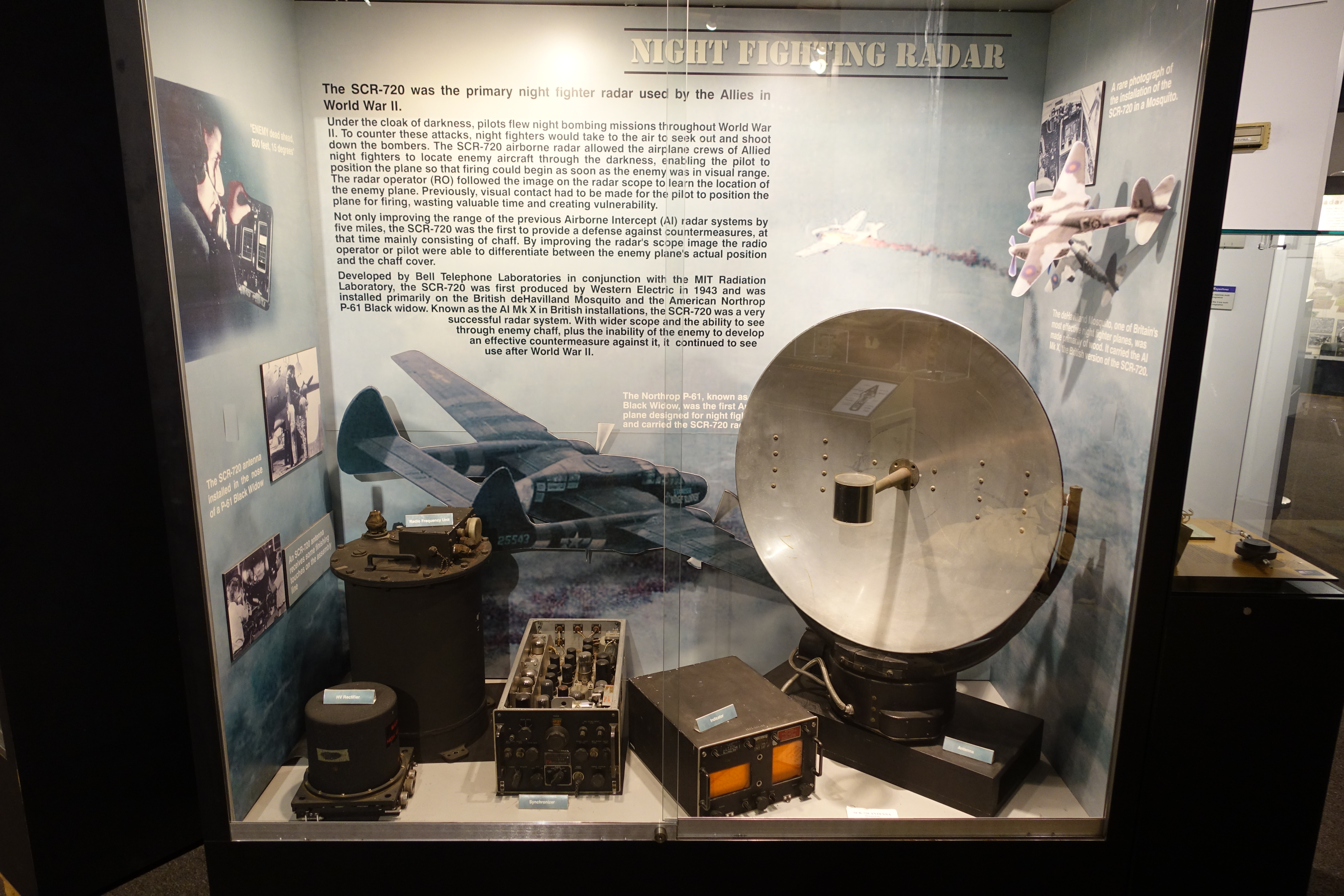 Exhibit in the National Electronics Museum, 1745 West Nursery Road, Linthicum, Maryland, USA. All items in this museum are unclassified. The museum permitted photography without restriction.